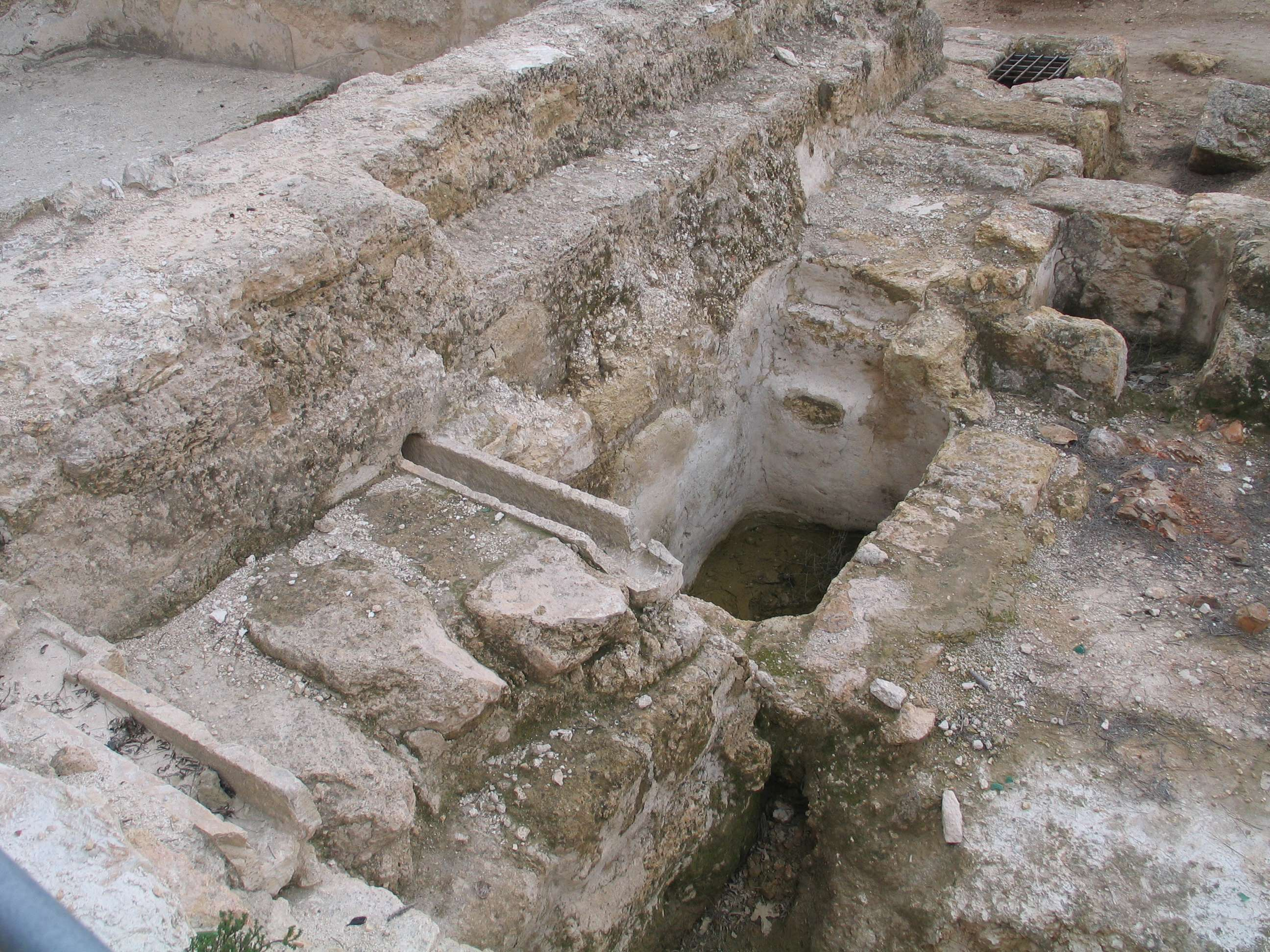 Archaelogical garden in kibutz Ramat Rachel, Israel.